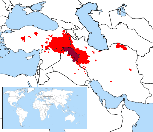 Kurdish linguistic map. Dark red area is where Kurdish language is an official language.